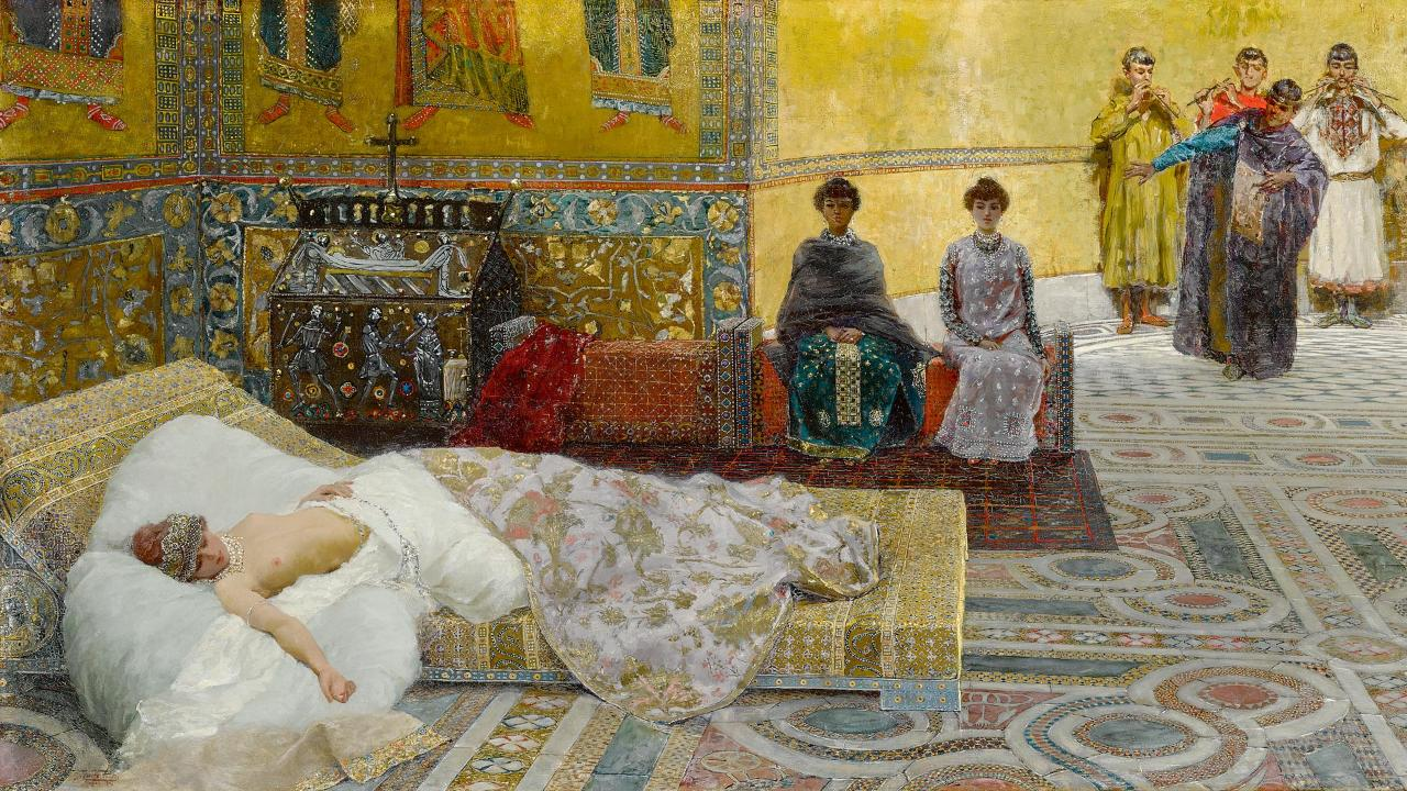 Teodora by Giuseppe de Sanctis